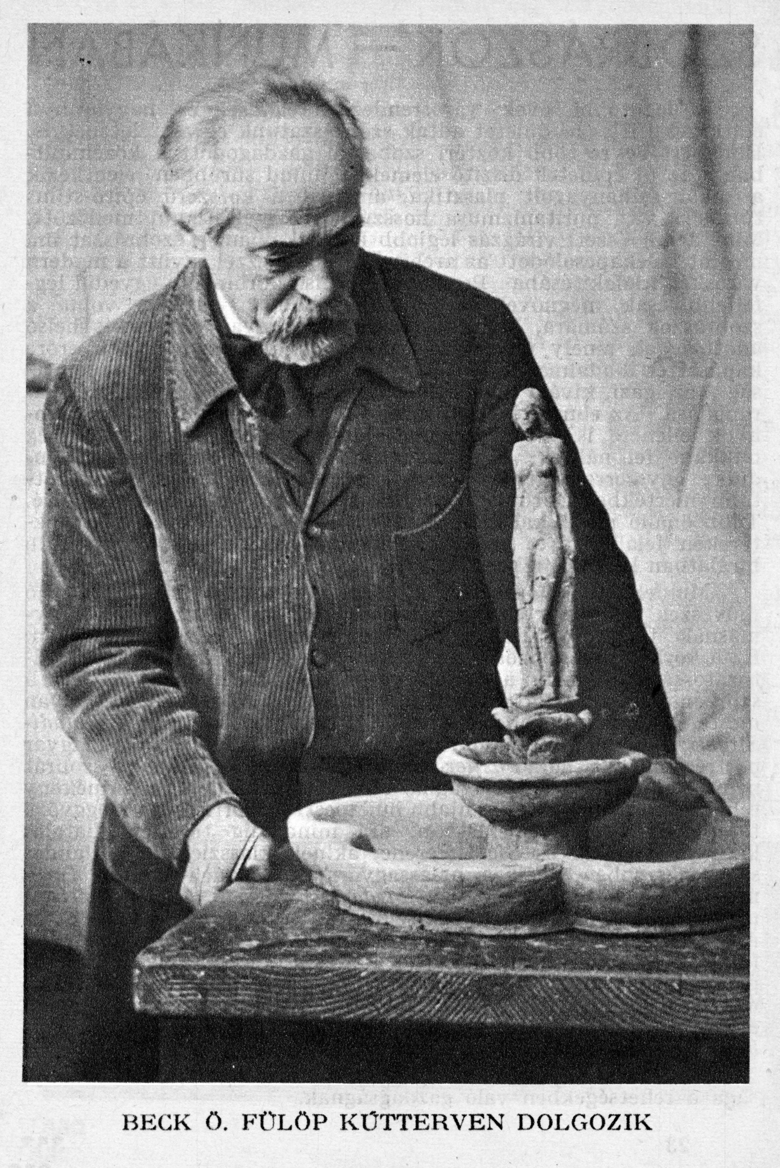 Fülöp, Beck Ö. (1873-1945) Hungarian sculptor - during sculptures (1938)